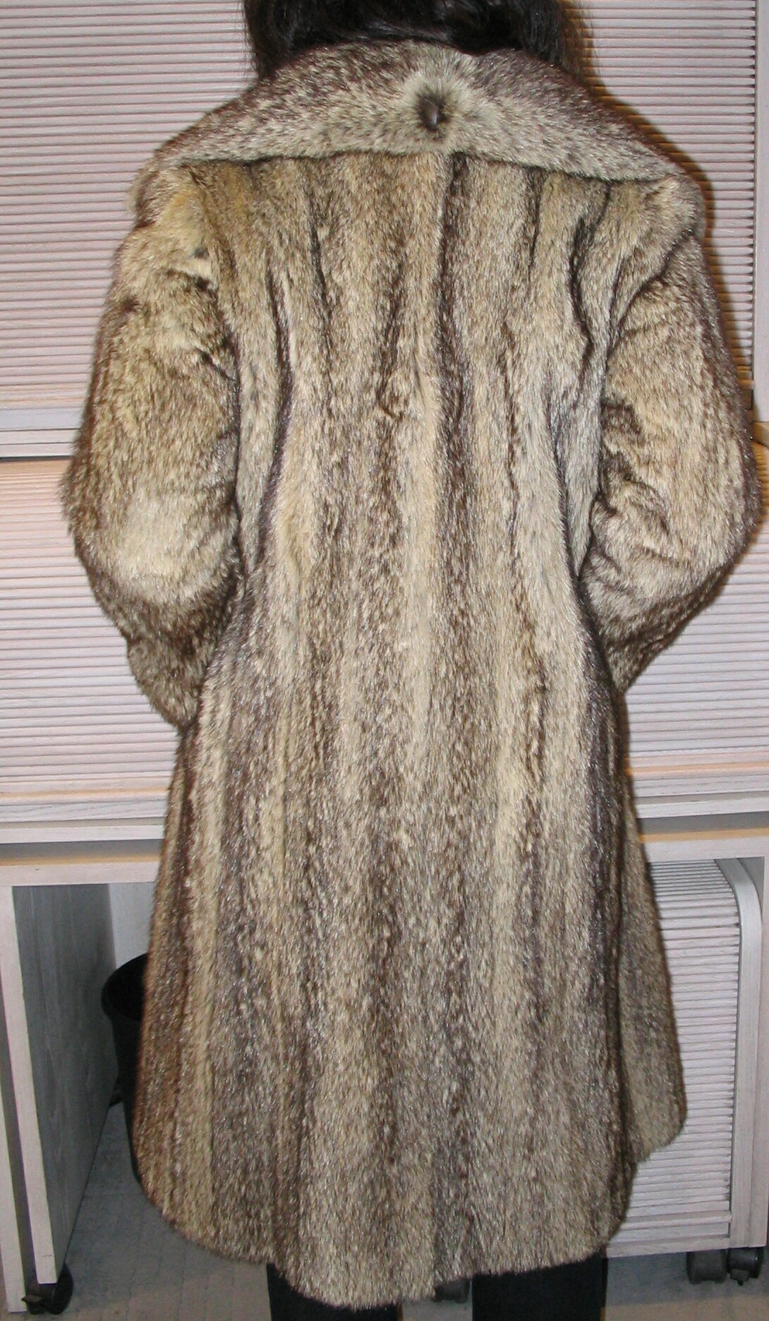 Marmot fur skin coat, let out worked, natural colour.